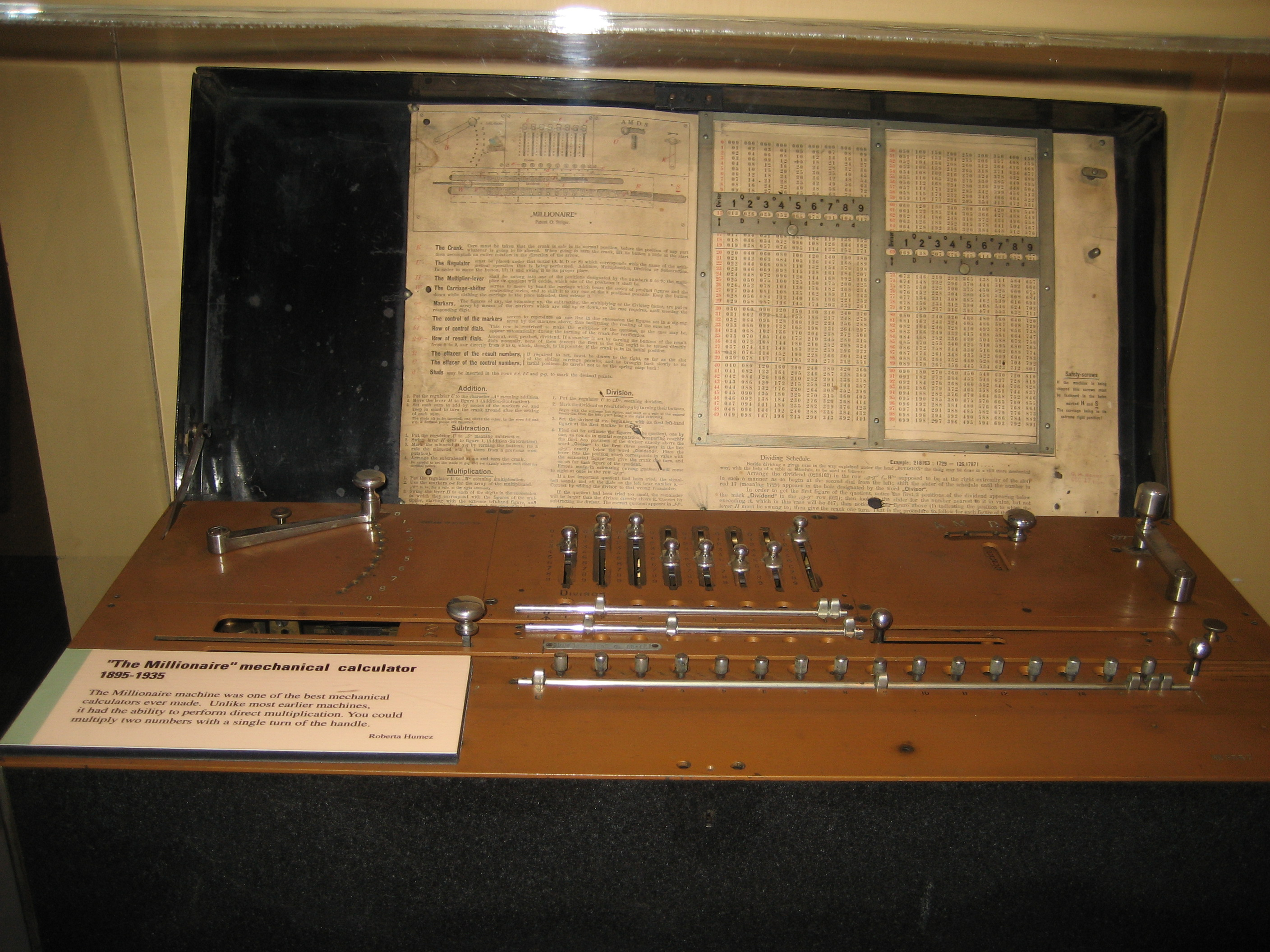 Elaborate mechanical calculator of early 20th century, Museum of Science, Boston, Massachusetts